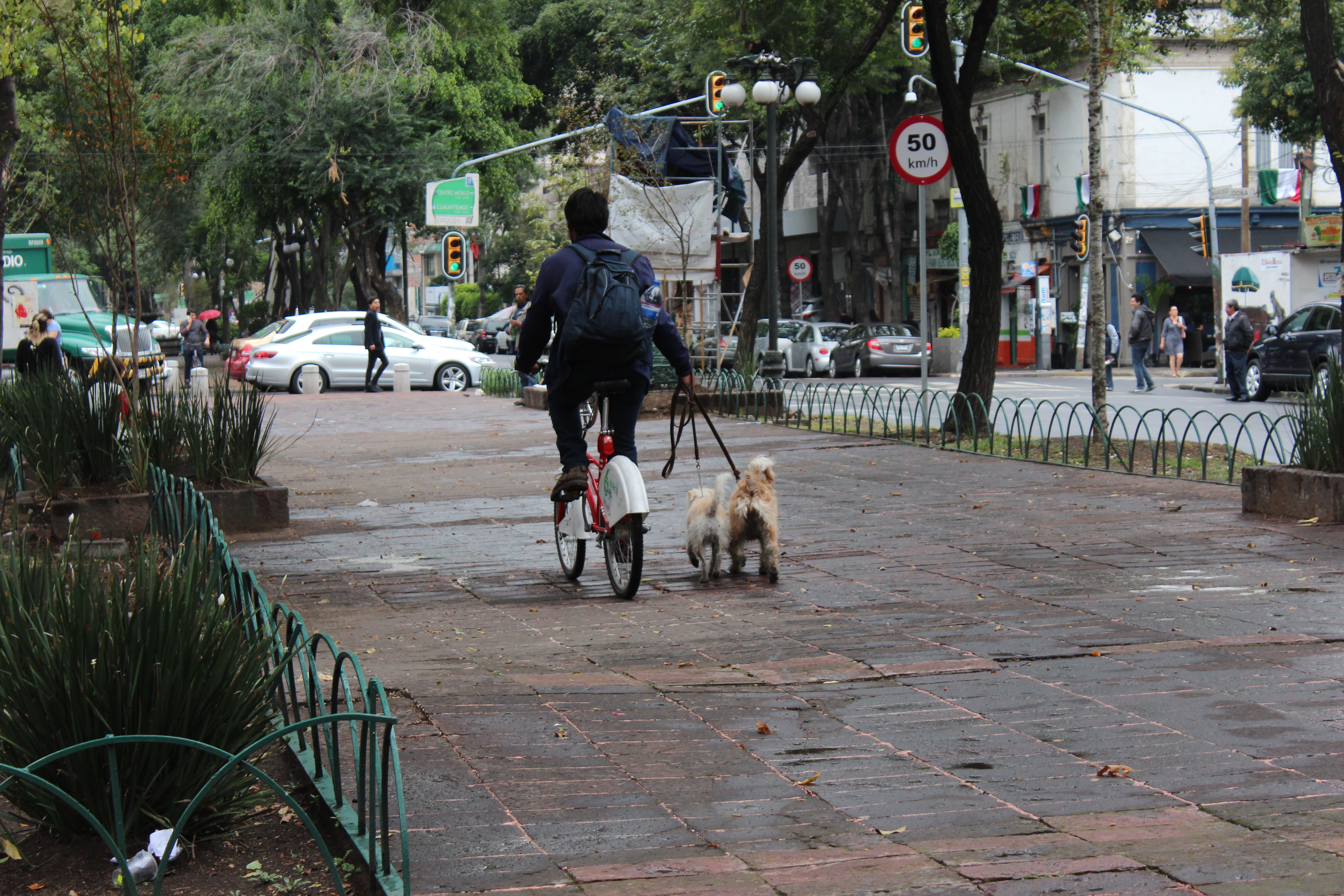 Cyclist take his dogs for a ride at the pavilion from Álvaro Obregón avenue.